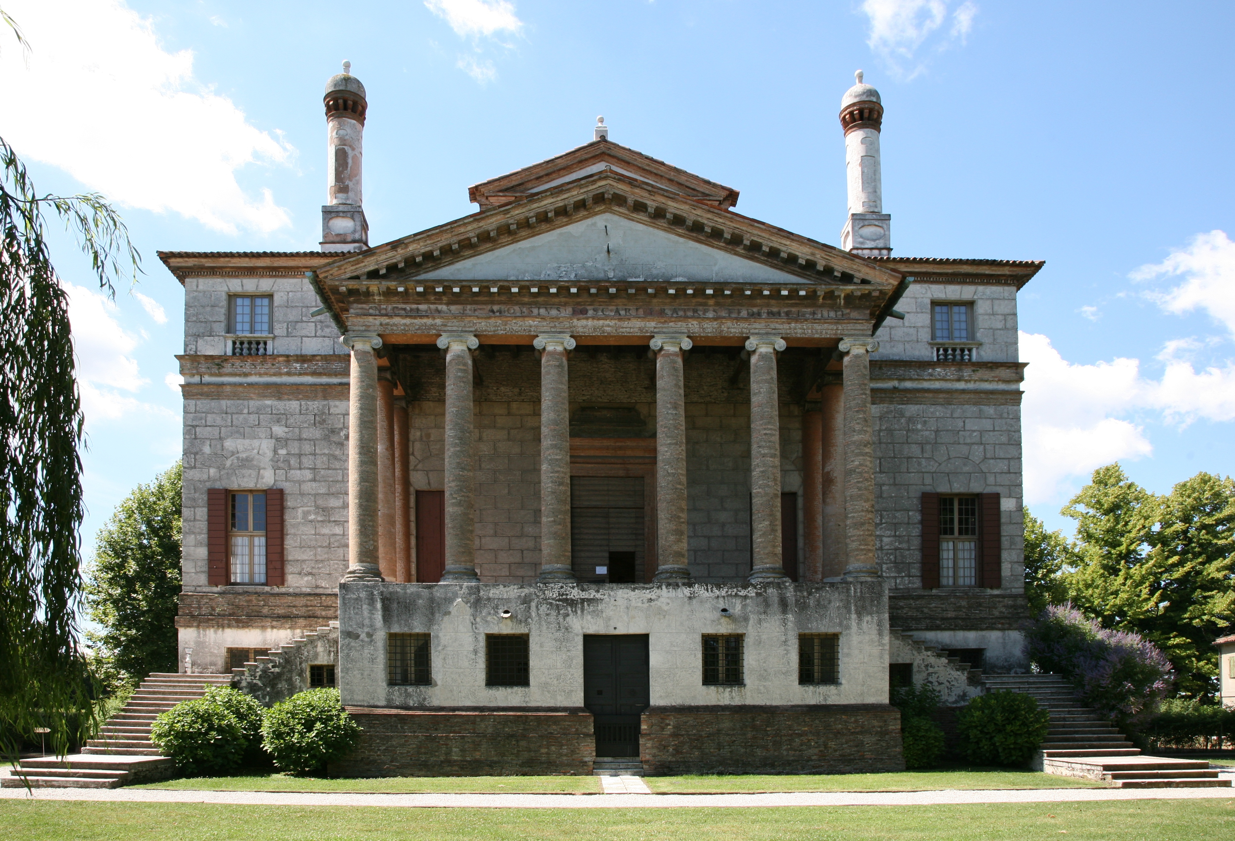 Villa near Venezia. Front toward the canal.